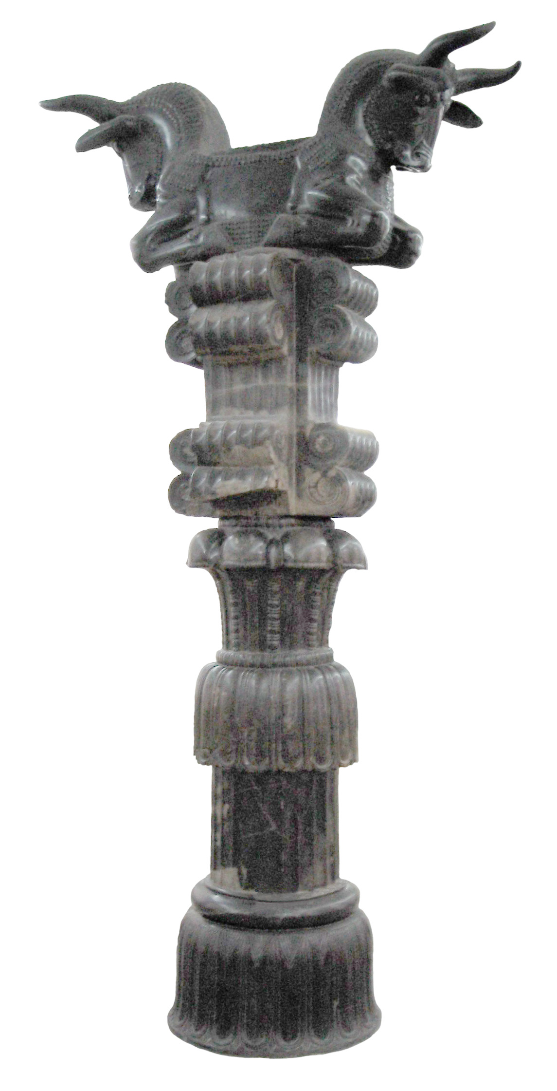 The higher part of a column from Apadana of Persepolis, Iran.